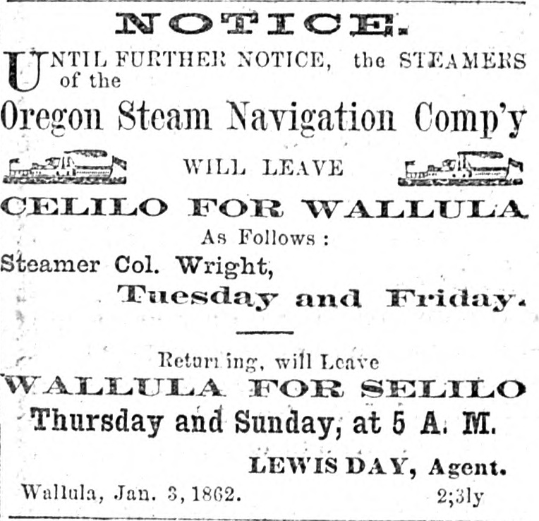 Advertisement published in Walla Walla Washington Statesman, February 28, 1863, page 3, column 6, for the Oregon Steam Navigation Company and its steamer Colonel Wright (running on the Columbia River)